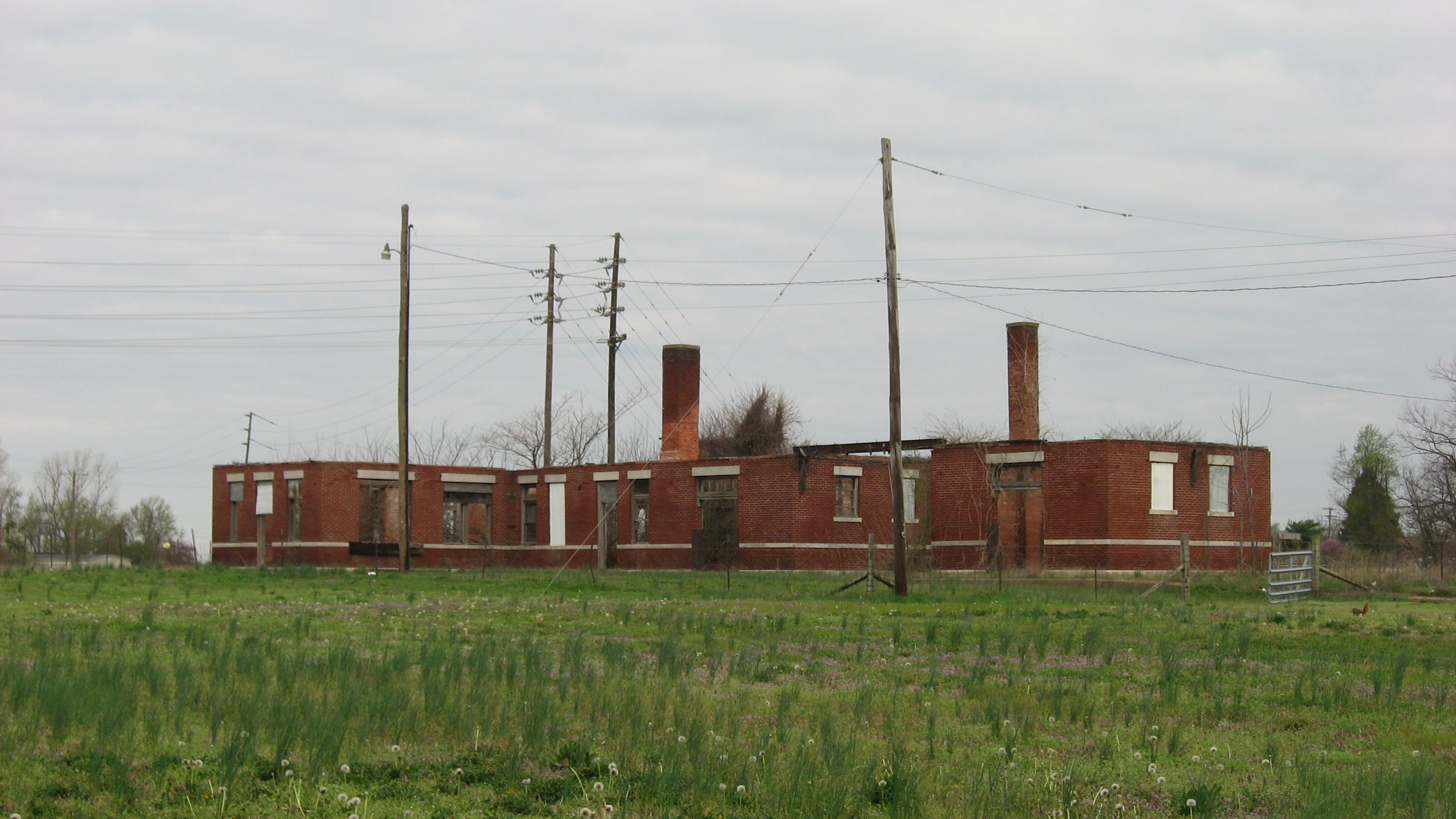 Ruins of the Missouri Pacific Depot in Charleston, Missouri, United States. Built in 1916, it is listed on the National Register of Historic Places.